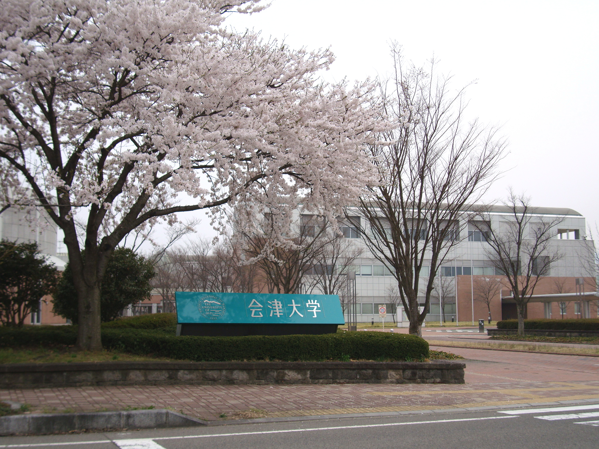 The University of Aizu in full bloom (Aizu-Wakamatsu City)